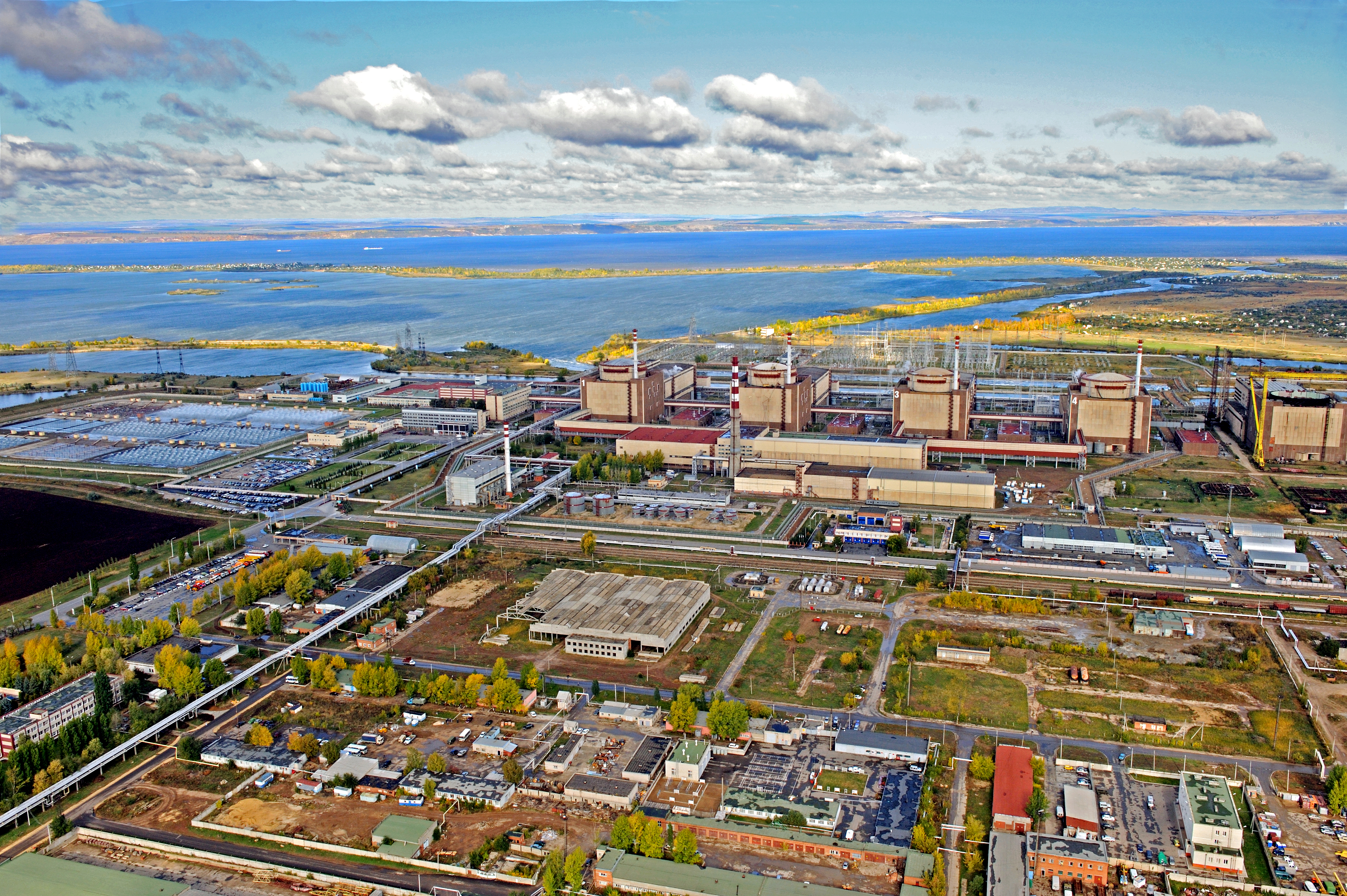 View of unit one to five of the Balakovo Nuclear Power Plant